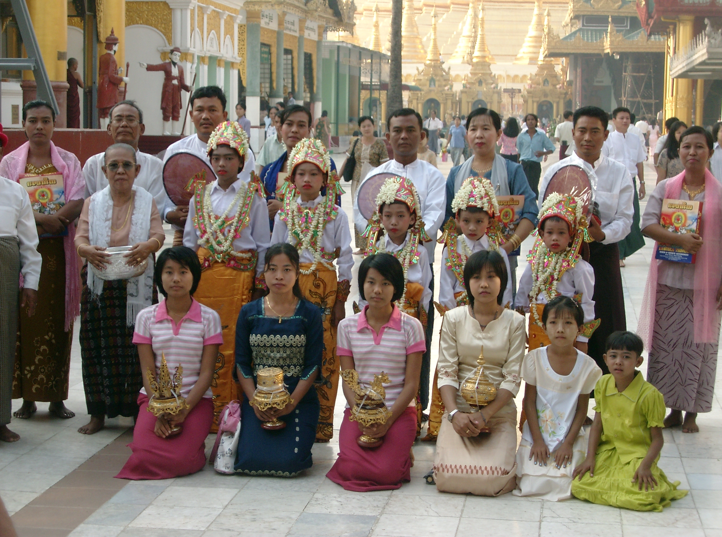 Shinbyu at the Shwedagon pagoda, 19 March 2006: shinlaungs (novitiates) in 2nd row; their sisters in front row carrying, from left to right, pandaung (lotus), kundaung (paan), hintha ohk, and hsun ohk; their parents with robes and fans in back row.